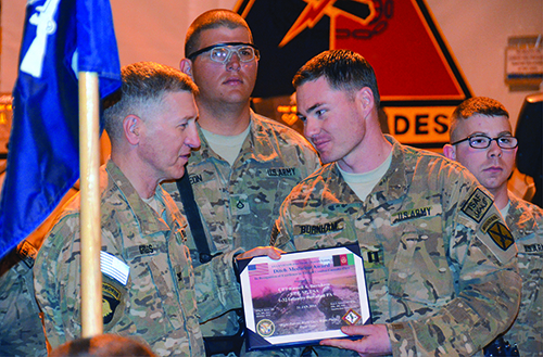 Caption reads: Col. Kirby Gross, left, Joint Theater Trauma System director, presents the inaugural Ditch Medicine Award to Capt. Russell Burnham, battalion physician assistant with 1st Battalion, 32nd Infantry Regiment, 3rd Brigade Combat Team, 10th Mountain Division (LI), during a ceremony Jan. 23 on AP Airborne in Afghanistan. The award represents excellence in the care of the wounded, rendered under the most austere conditions and most dangerous “ditches” on the globe. As a result of the recognition, Task Force Chosin Soldiers received Army Achievement Medals for completing advanced levels of training that demonstrated medical techniques far exceeding standard medic training.